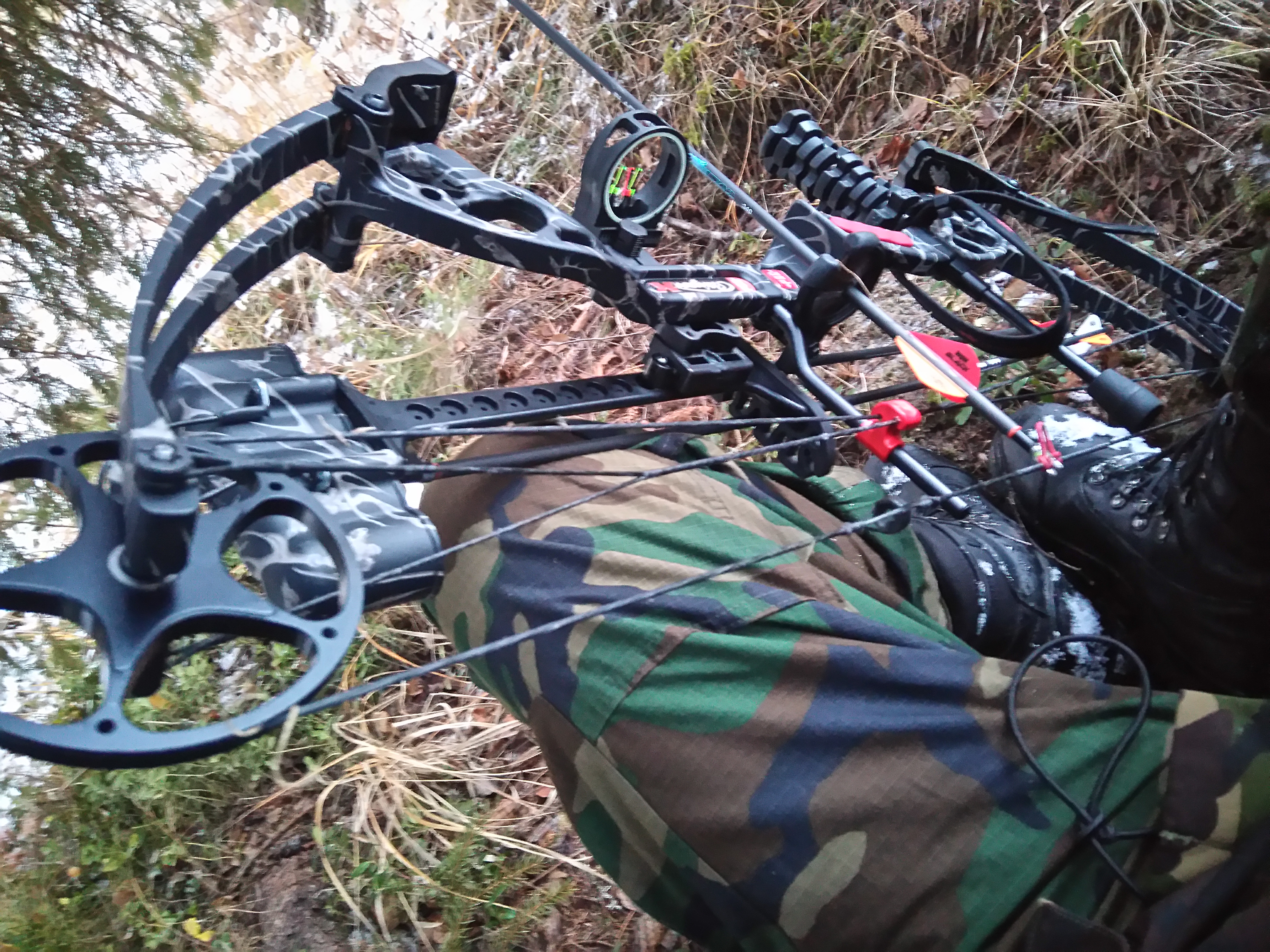 compound bow hunting Äänekoski winter 2016